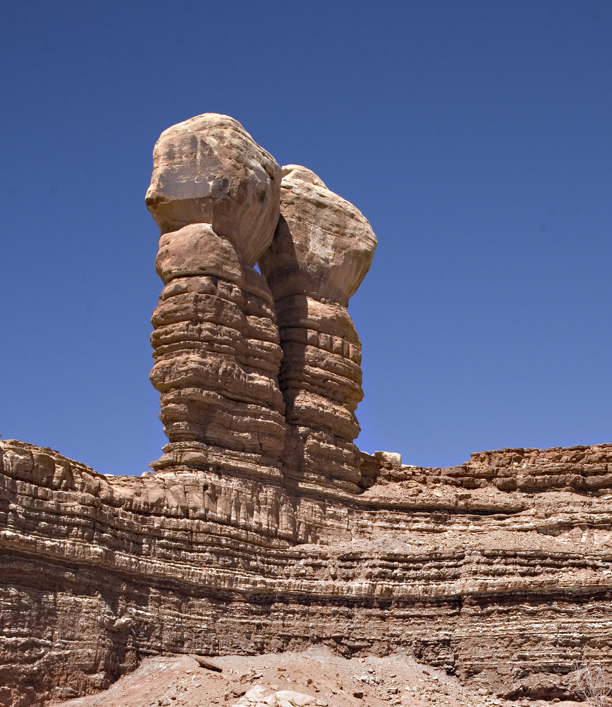 The Navajo Twin Rocks of Bluff, Utah